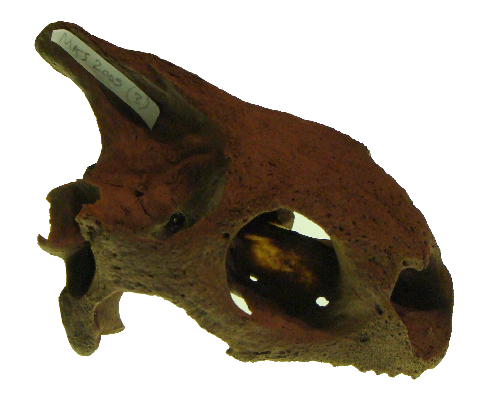 A skull of an axtinct giant tortoise from Mauritius (Cylindraspis sp.). It is/was on display at a Dodo Expedition exhibition at the National Museum of Natural History 'Naturalis' in Leiden, the Netherlands (object MAS 2005-3).